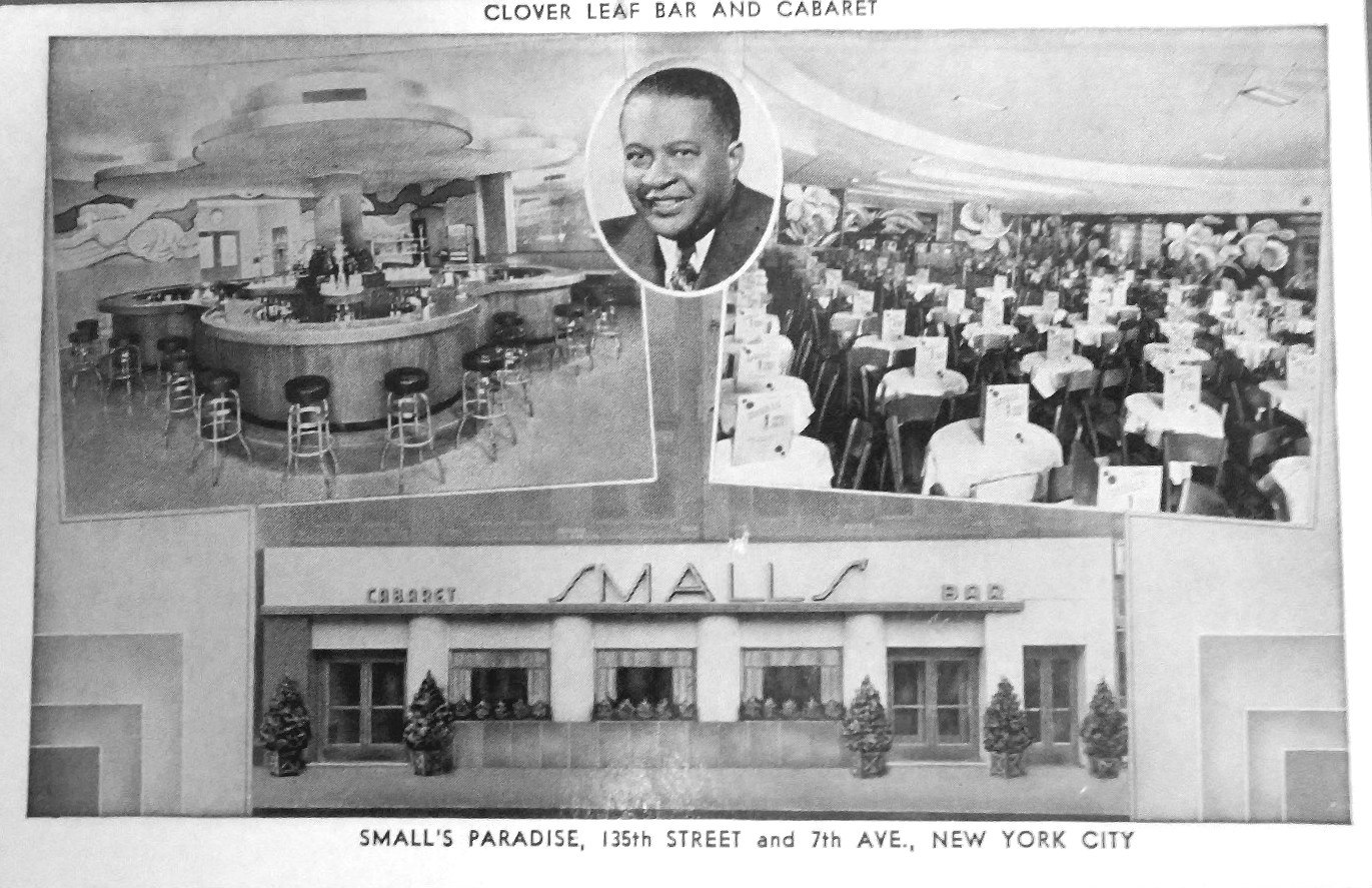 Postcard with photos of the Clover Bar (upper left), the Orchid Room {upper right) and the marquee of Smalls Paradise in New York circa 1942. The man pictured at center is Ed Smalls, founder of the club and its owner until 1955. The card has no copyright markings on it as can be seen in the links above.